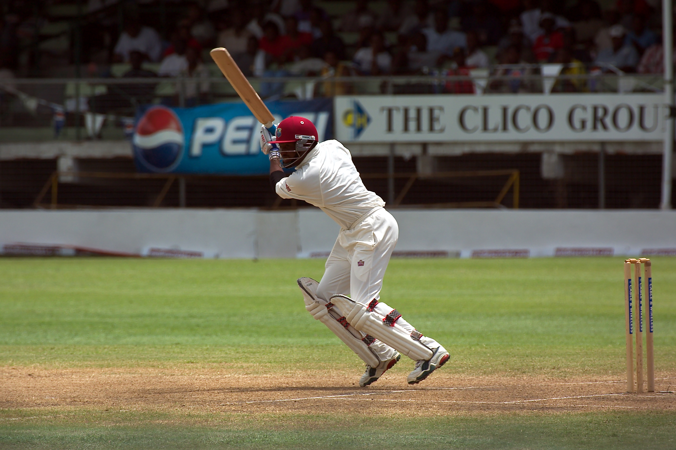 Brian Lara batting for West Indies against India at Kensington Oval, Bridgetown, Barbados, in May 2002. He scored 55 runs. Scorecard.